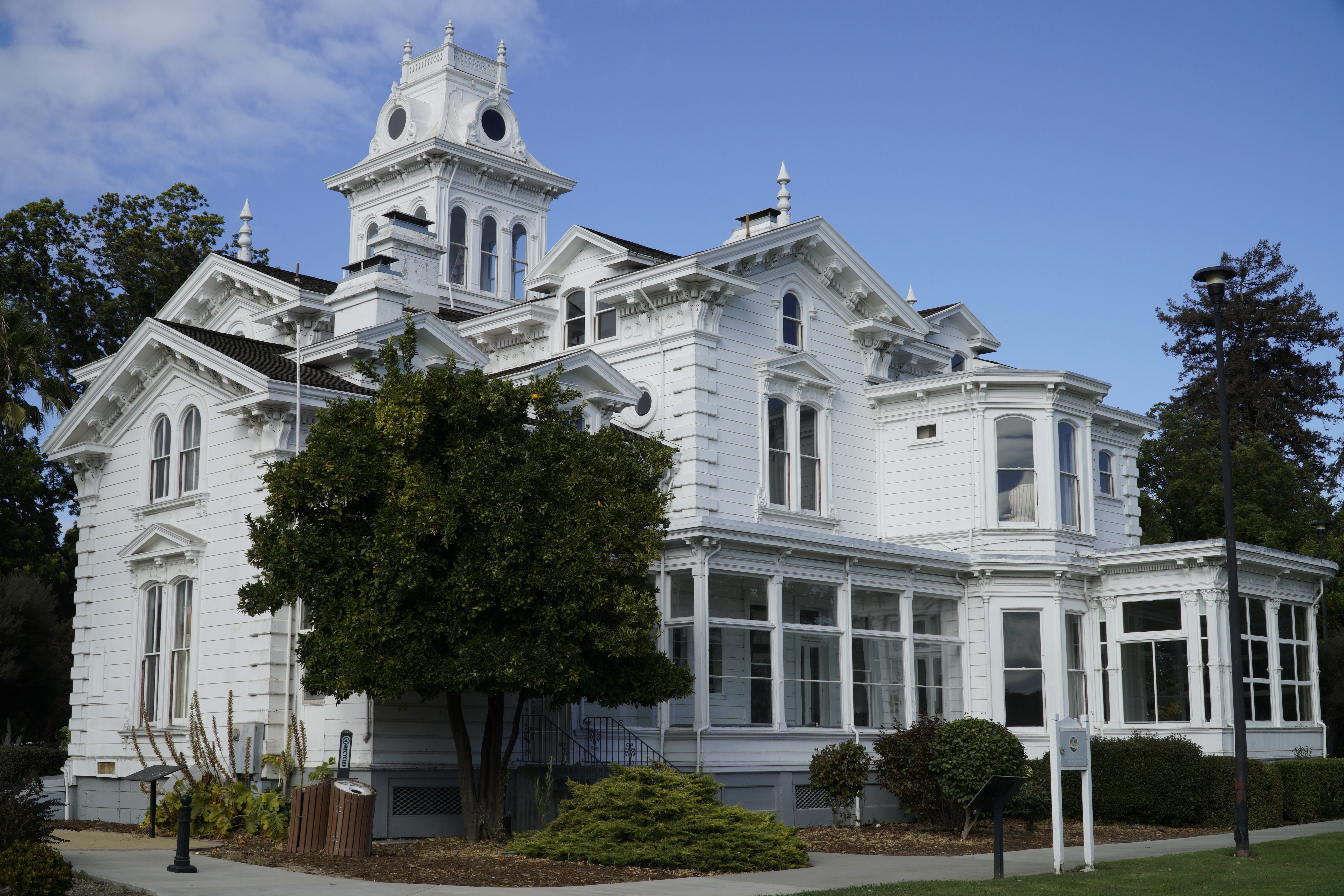 Meek Mansion in Hayward, California. Photographed September 2018 from southwest corner of the property.